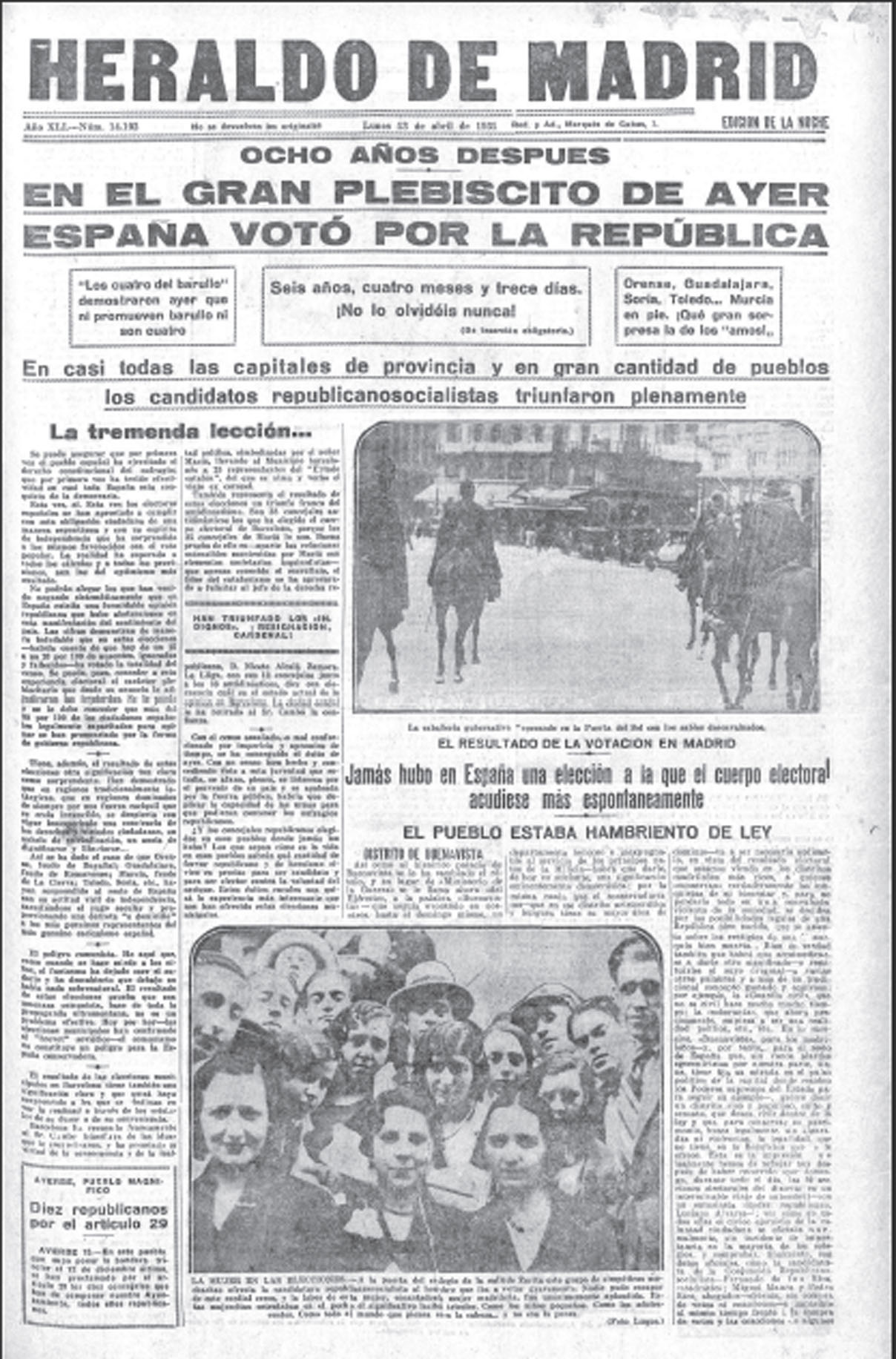 Front page of Heraldo de Madrid